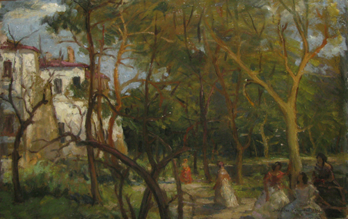 Nicolae Vermont - Vara la conac ("Summer at the Manor"), oil on cardboard. Identified by art experts as a depiction of the Alexandru Bogdan-Piteşti villa, in Vlaici, Coloneşti, Olt County. See: Veronica Marinescu, "Tonitza, Vermont şi Dărăscu, în colecţiile epocii", Curierul Naţional, Dec. 8, 2010.